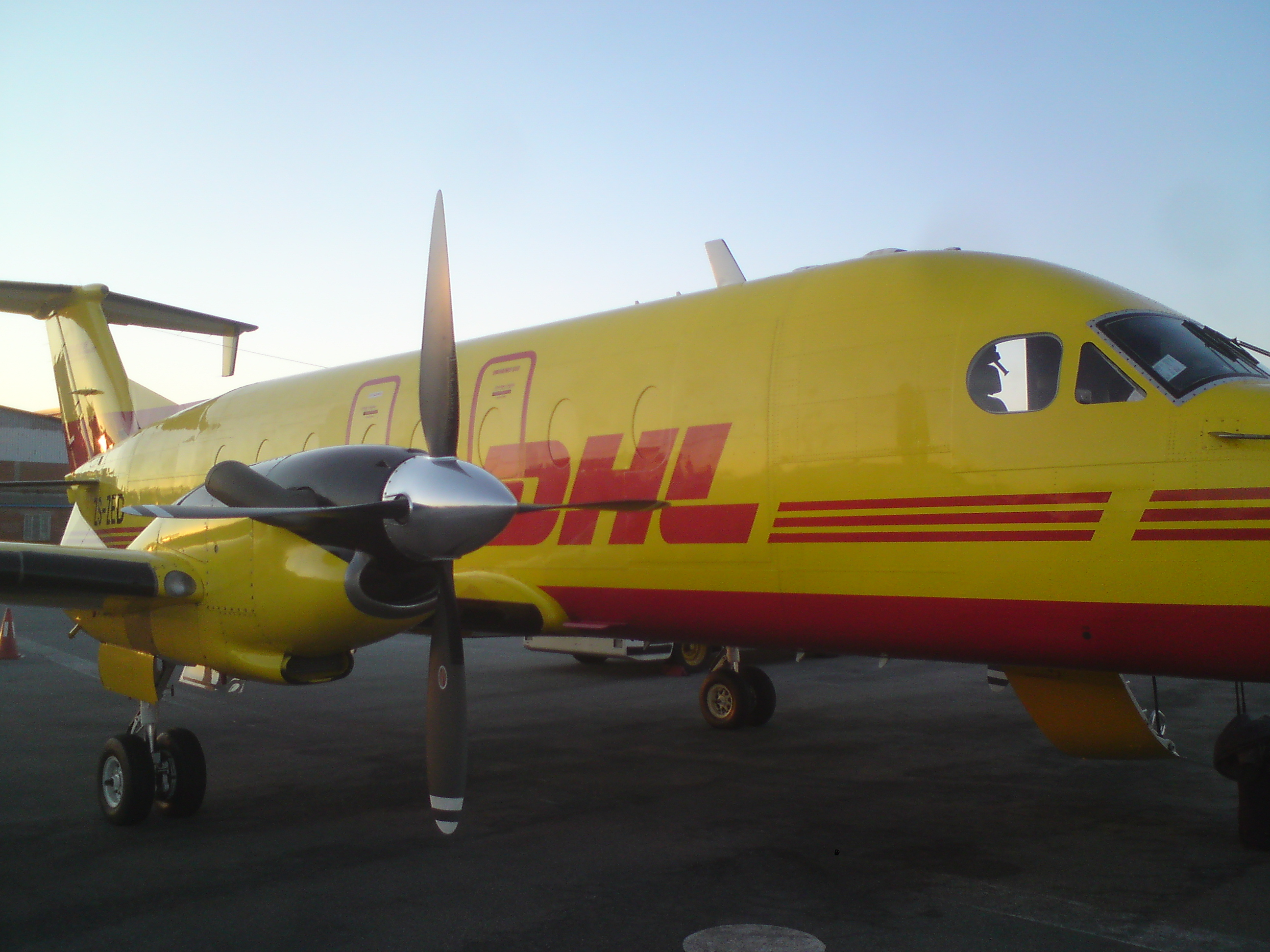 Beech 1900 in DHL livery